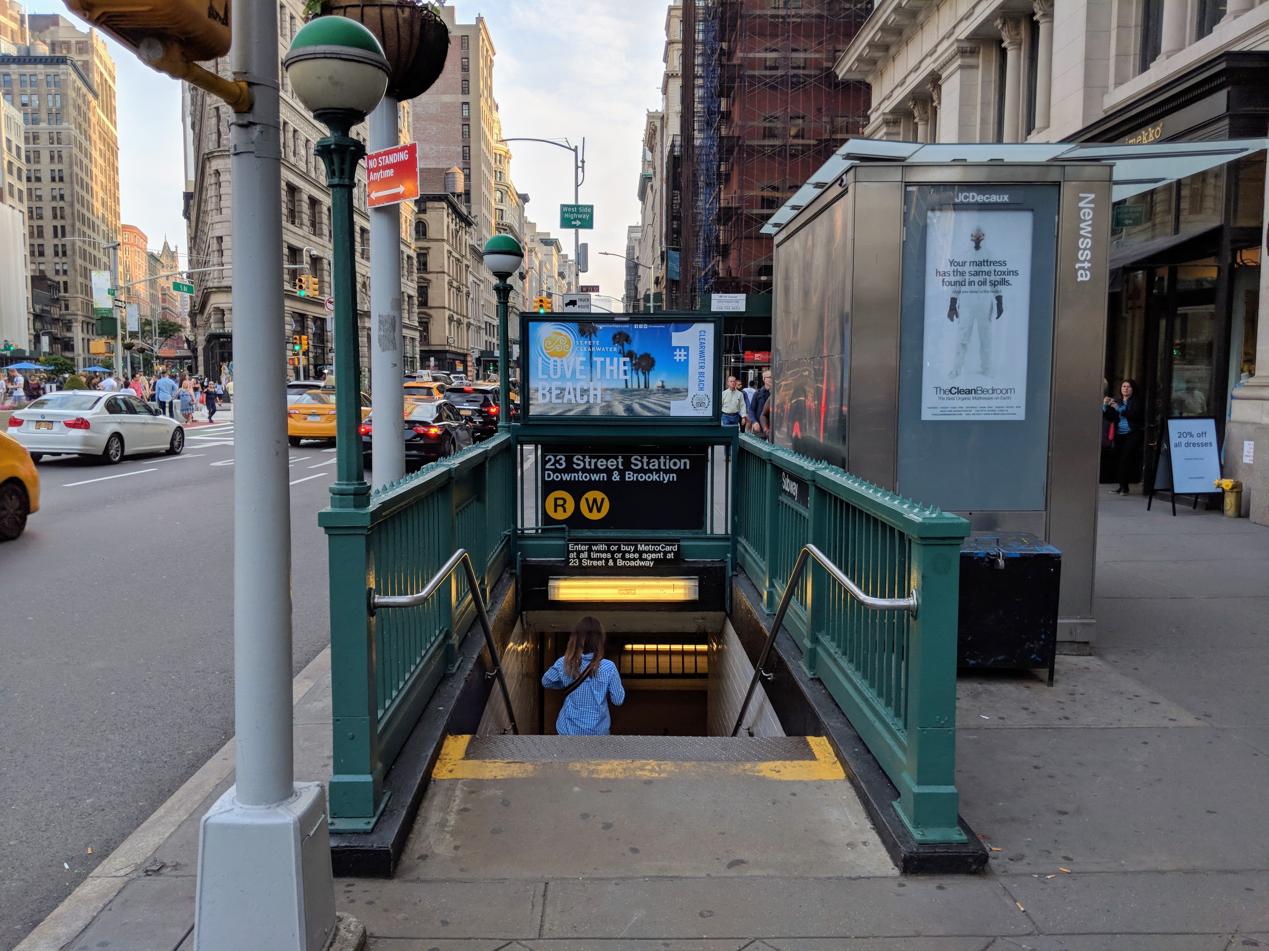 The entrance to the 23rd Street (BMT Broadway Line) subway station in June 2018.